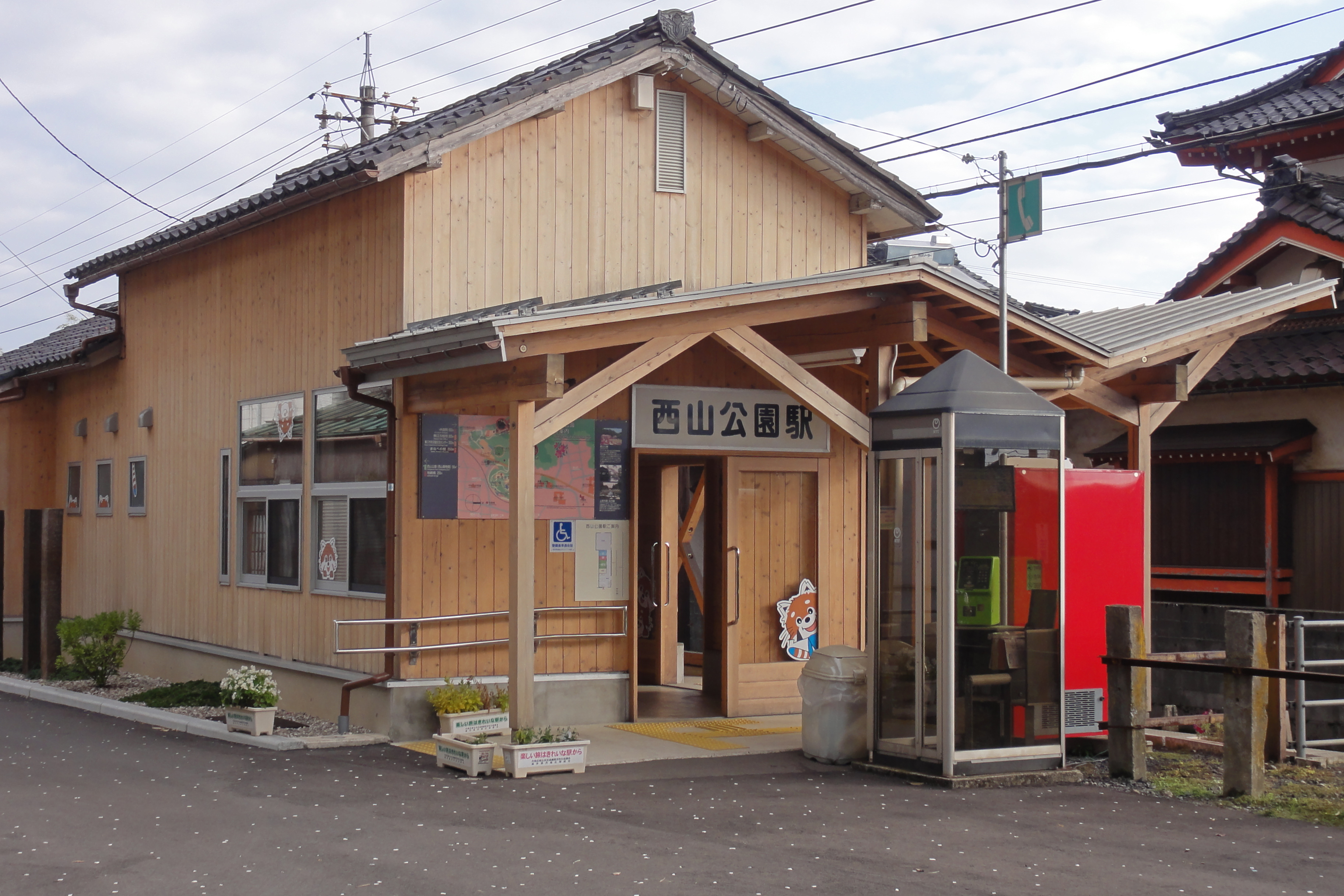 Nishiyama park station,Fukui prefecture, Japan